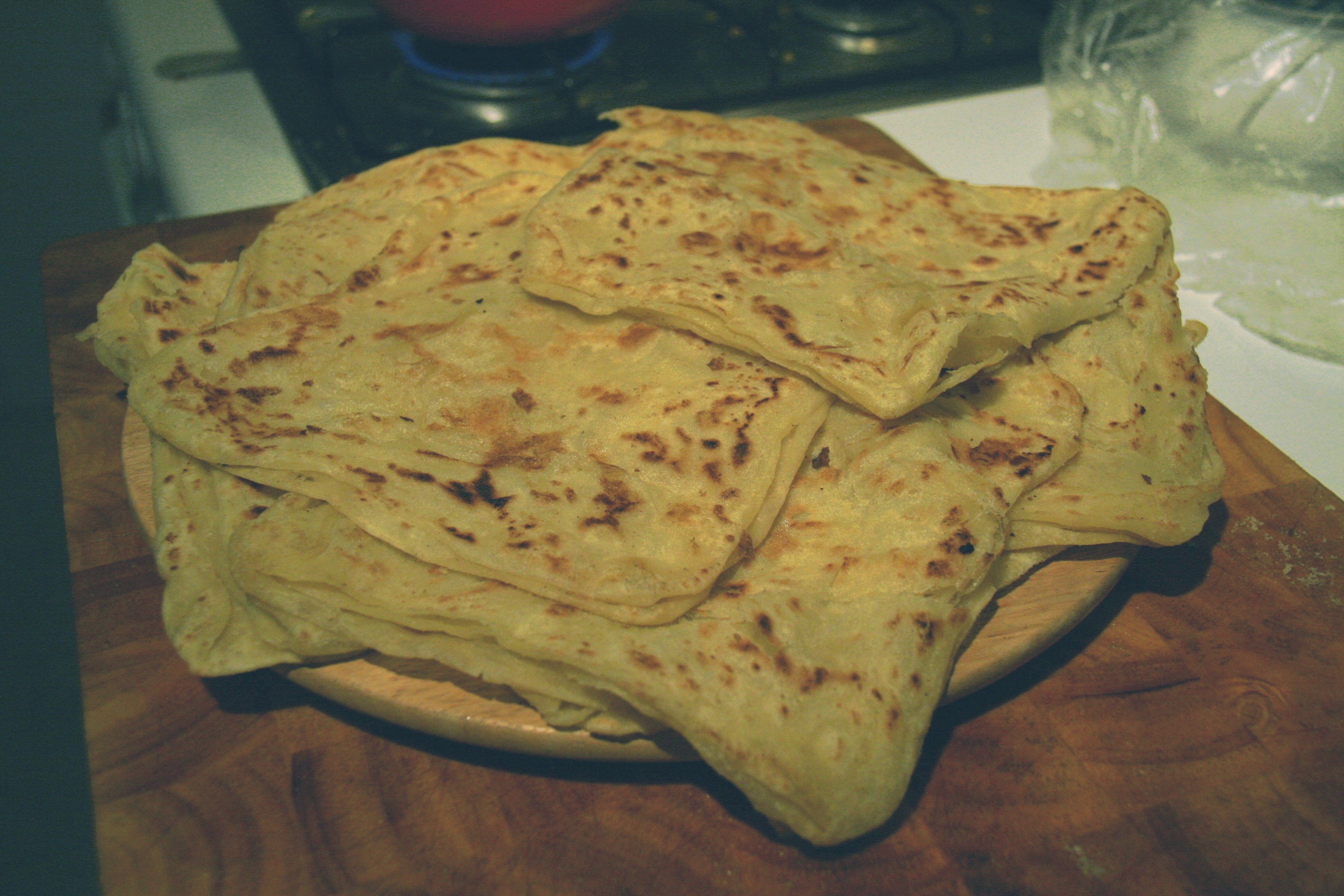 Rghaif (airy Pankacke)